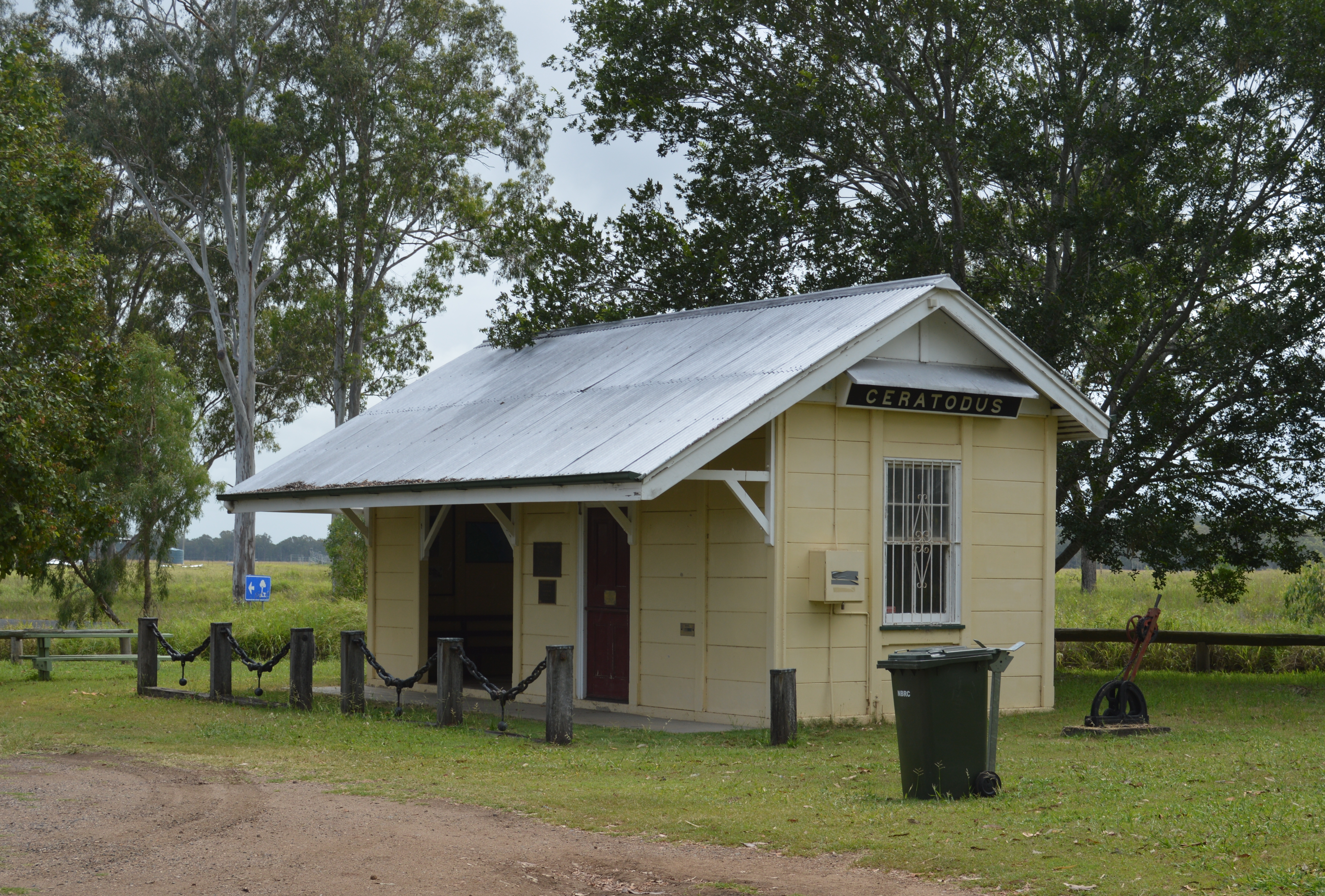 Ceratodus railway station, once part of the Mungar Junction to Monto Branch Railway, relocated in 1997 to the rest area at Ceratodus, Queensland